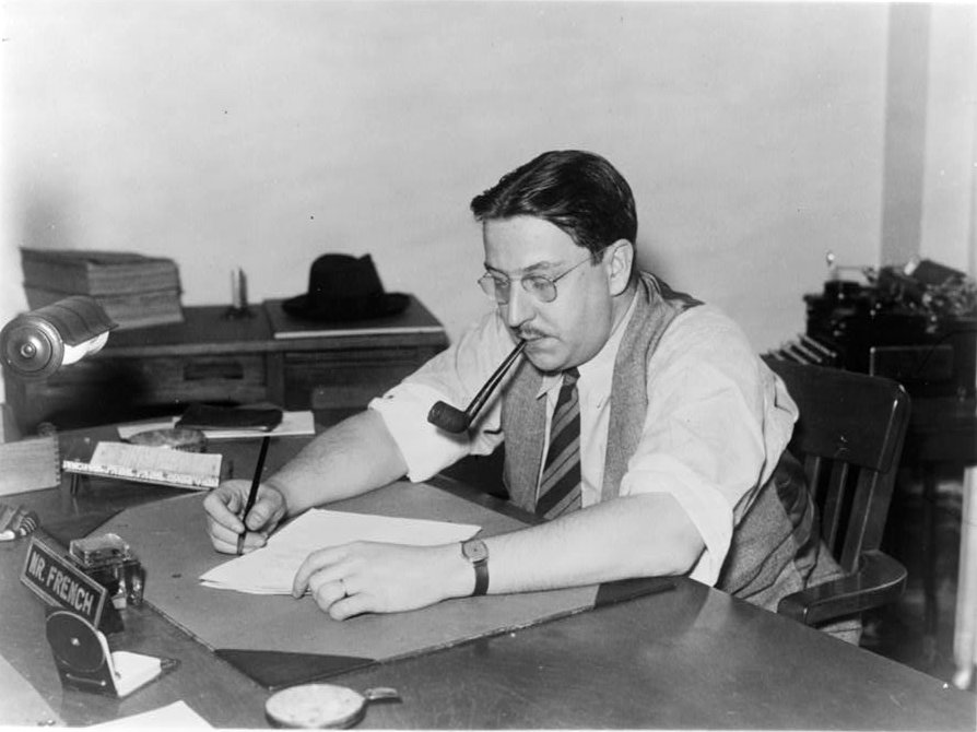 Paul Comly French, State Director of the Pennsylvania Unit, W.P.A. Federal Writers' Project, half-length portrait, seated at desk, writing, facing left, smoke pipe in his mouth.